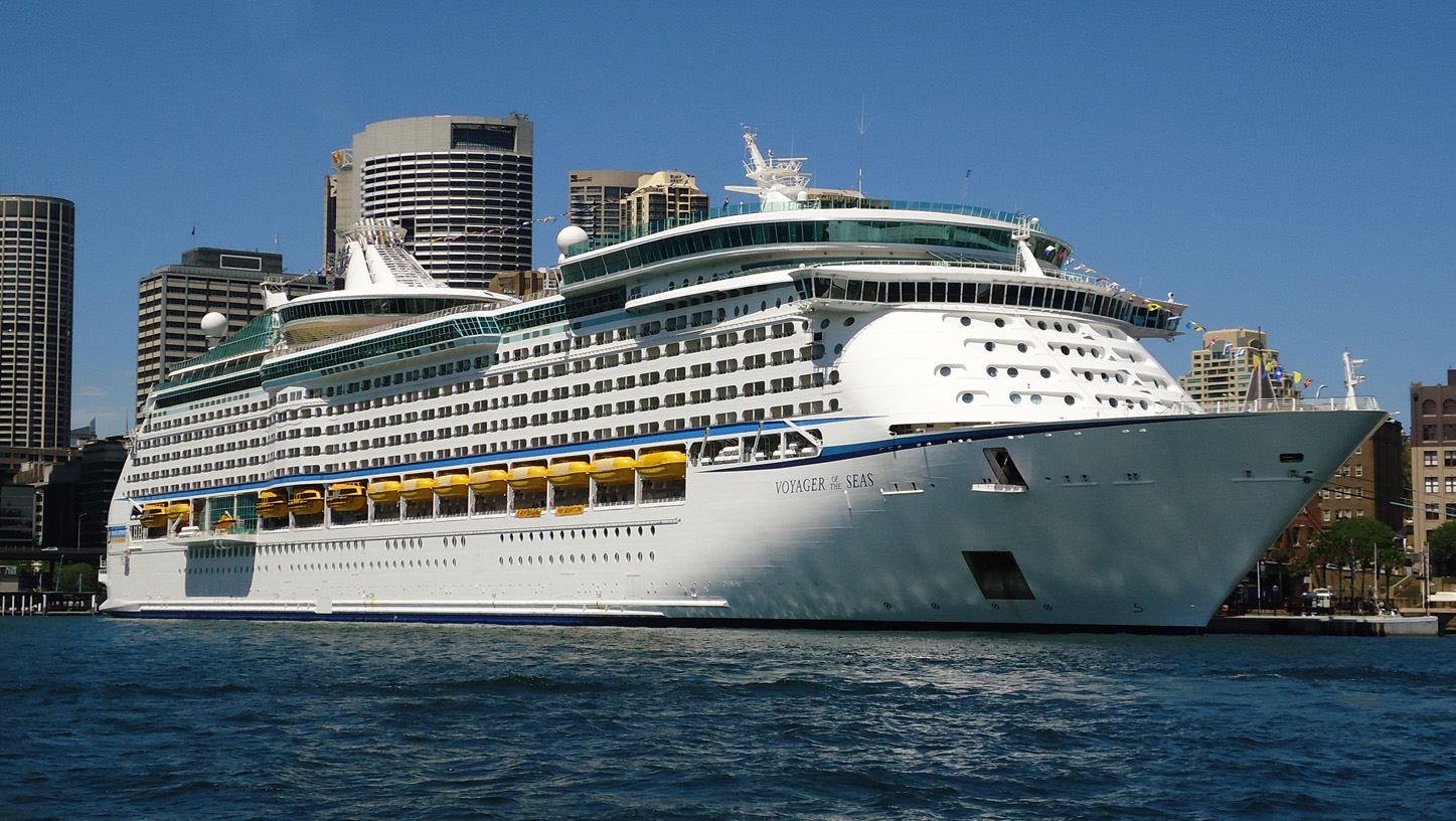 Voyager of the Seas in Sydney following her 2014 dry dock refurbishment